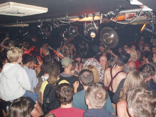 Concert hall of the independent cultural centre KAPU in Linz, Upper Austria, Austria. Concert of the "Extra Action Marching Band" during the "KAPU Haus- & Hoffest" July 7th, 2007